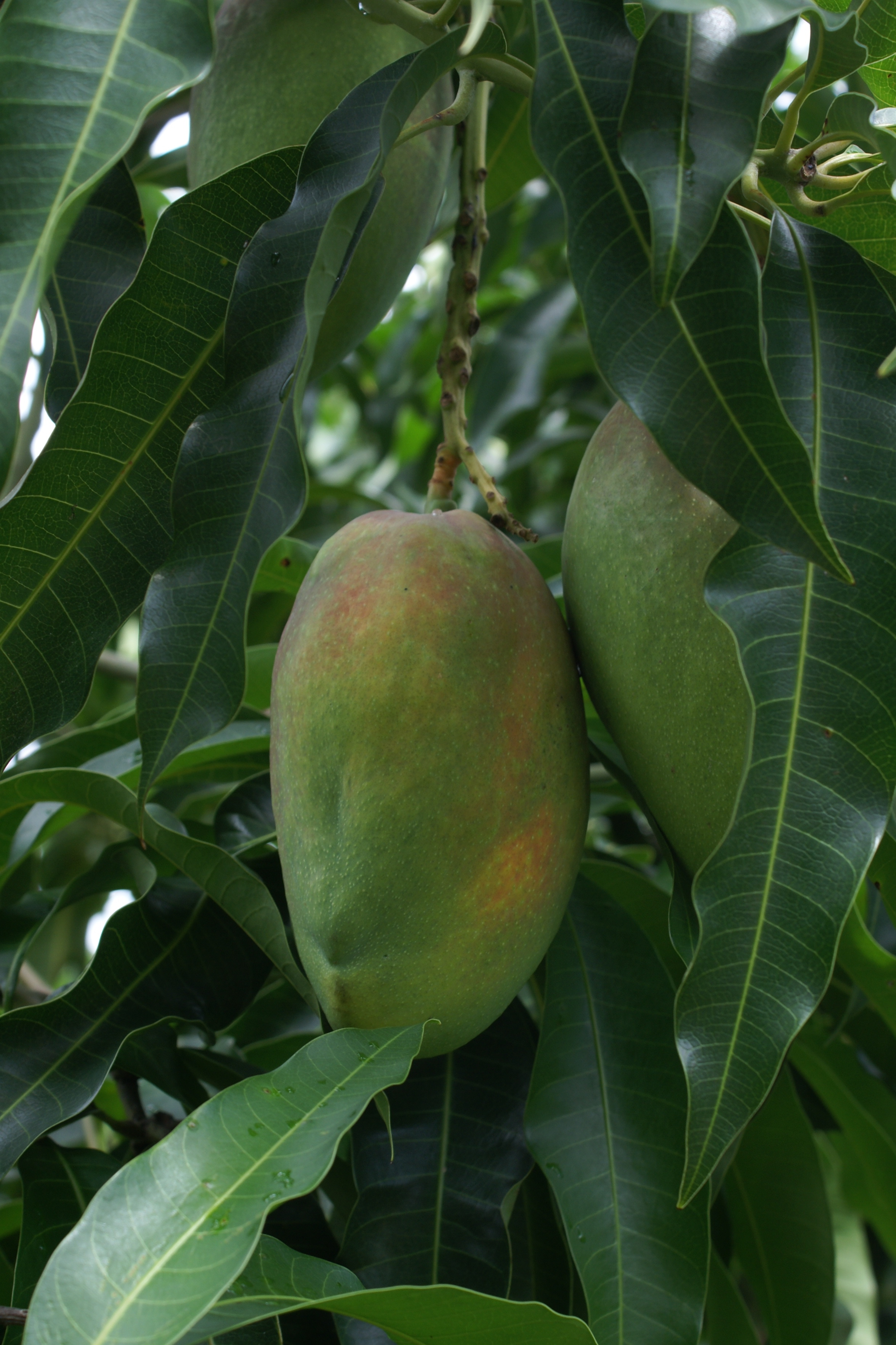 Mango (Mangifera indica) cv. Cogshall in an orchard on Réunion island